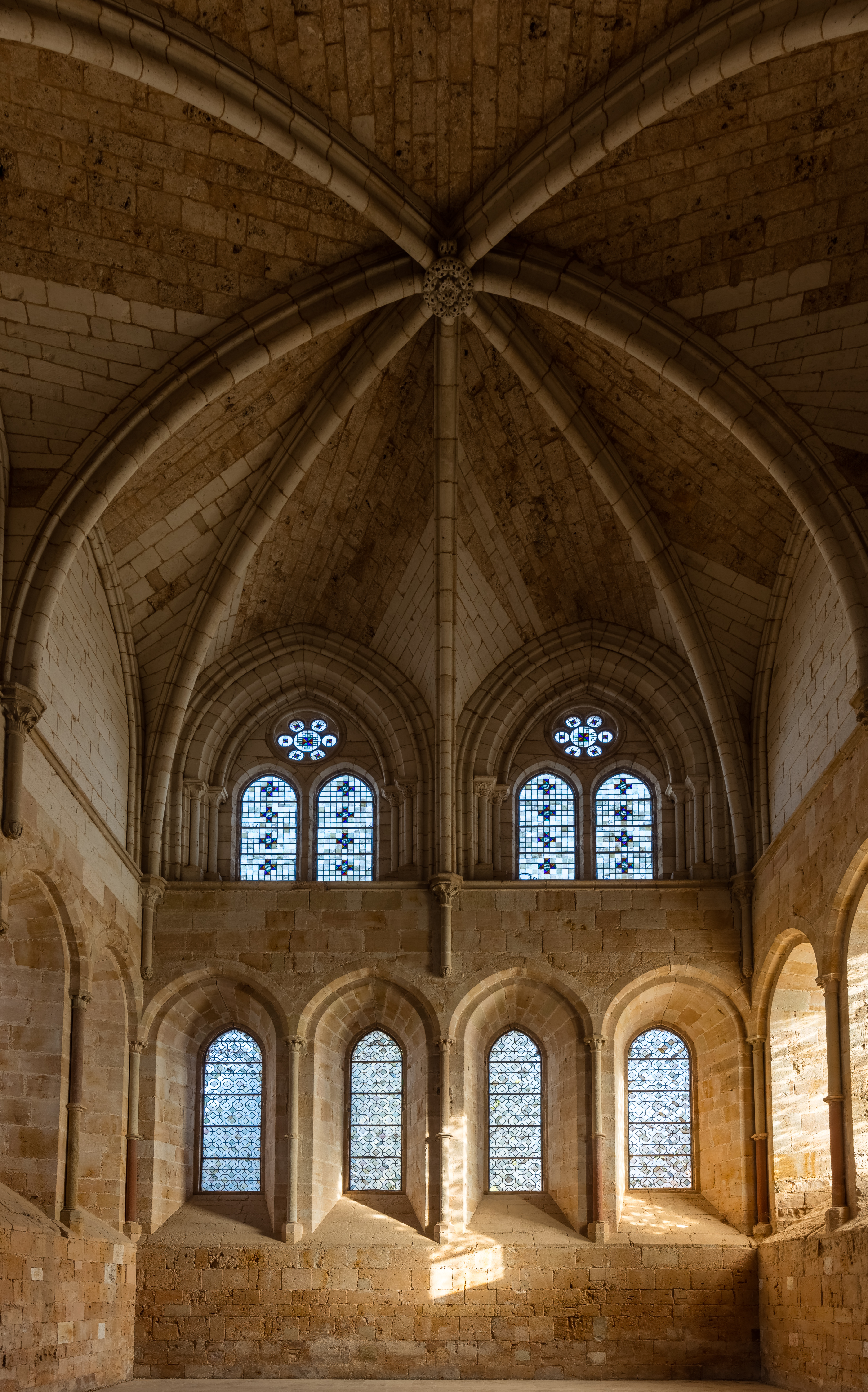 Monastery of Santa María de Huerta, Santa María de Huerta Soria, Spain